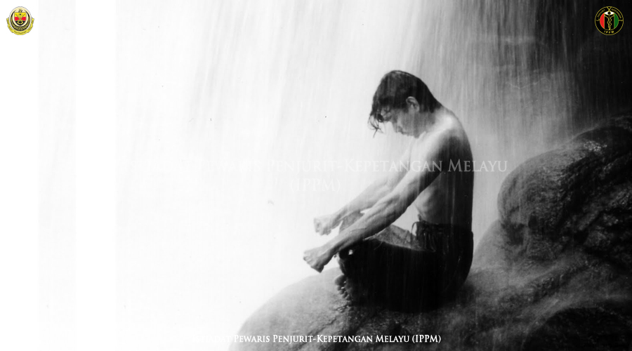 Meditation is one of the basic part in Penjurit- Kepetangan Melayu.